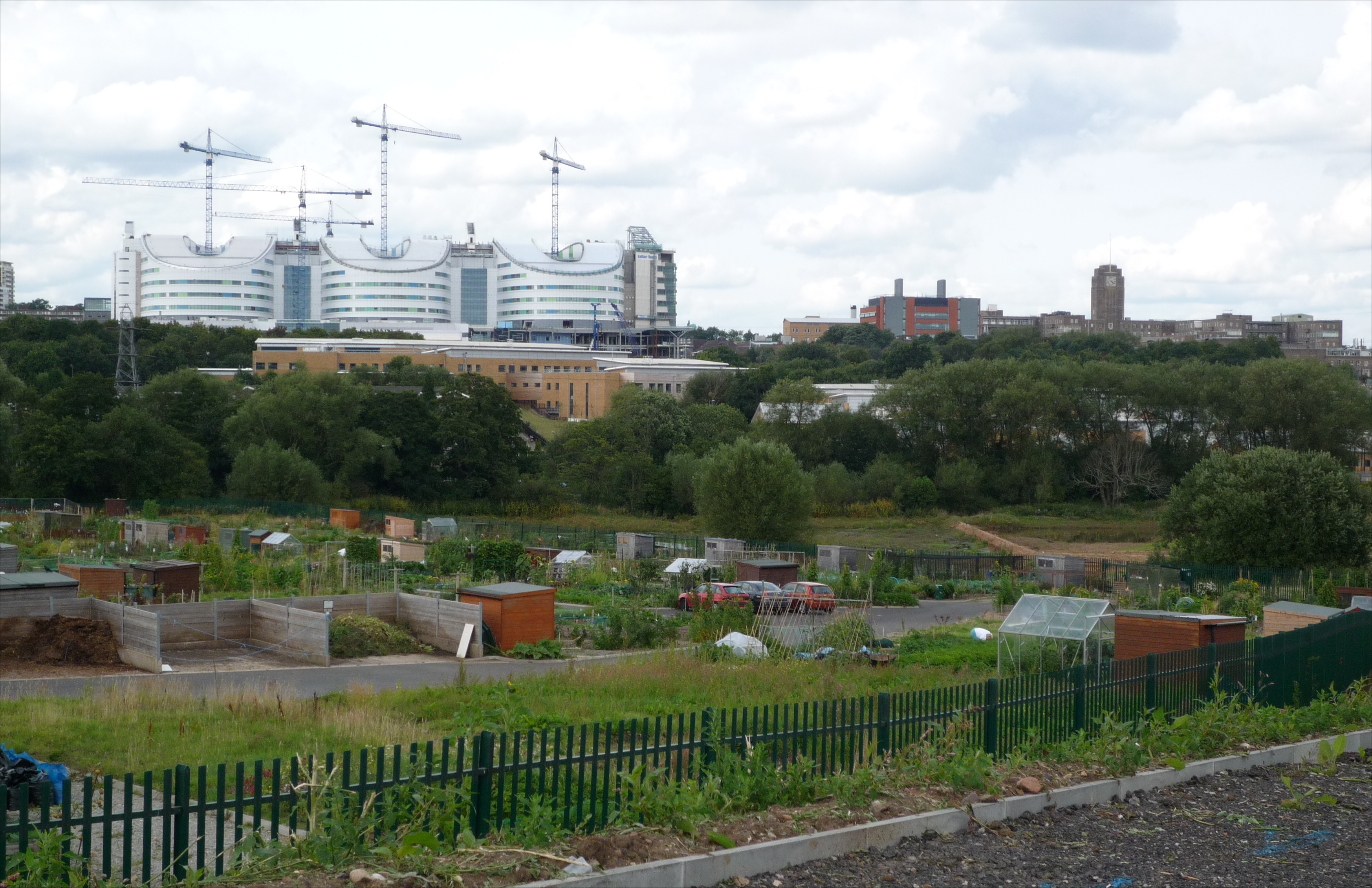 Birmingham Super Hospital (left) under construction in Birmingham, England. Built to replace the Queen Elizabeth Hospital (right). View of the southern face. In the foreground are Selly Oak Harborne Lane allotments.